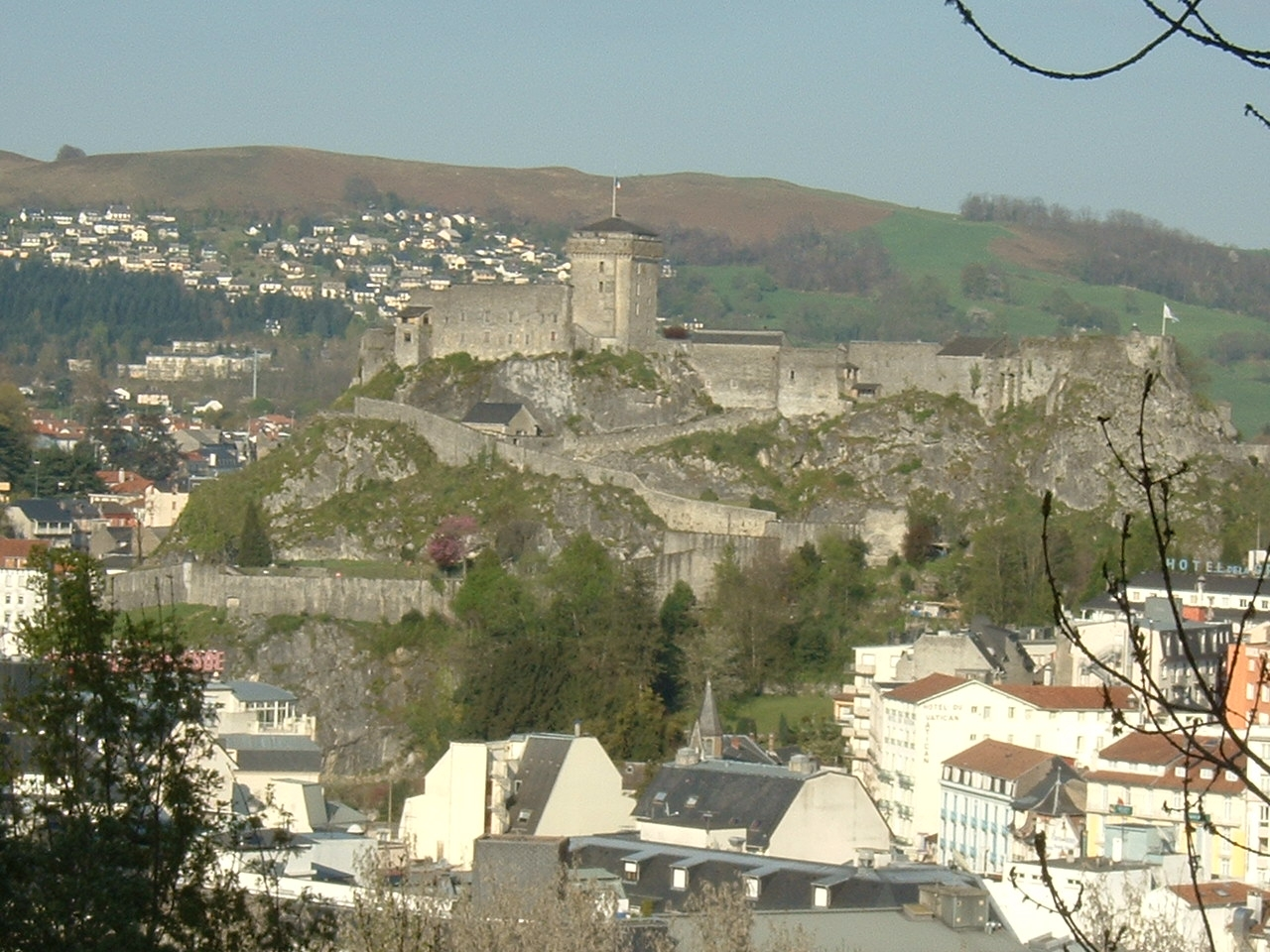 Lourdes : castle, southwestern view .